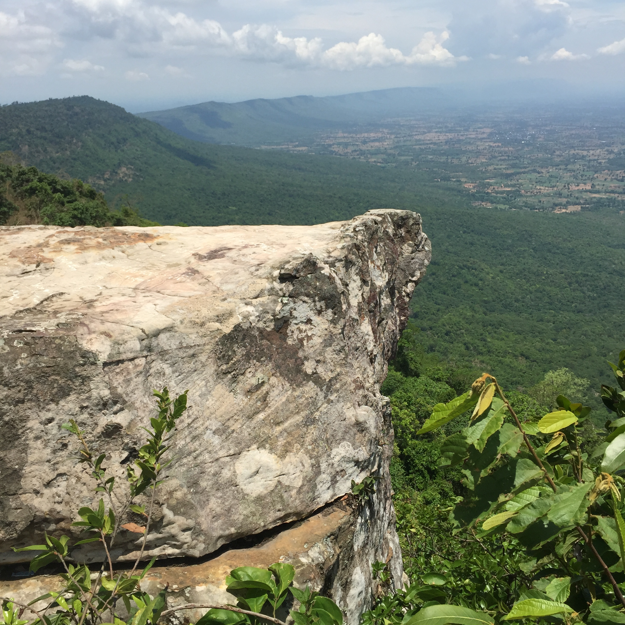 Ban Duea, Kaset Sombun District, Chaiyaphum 36120, Thailand